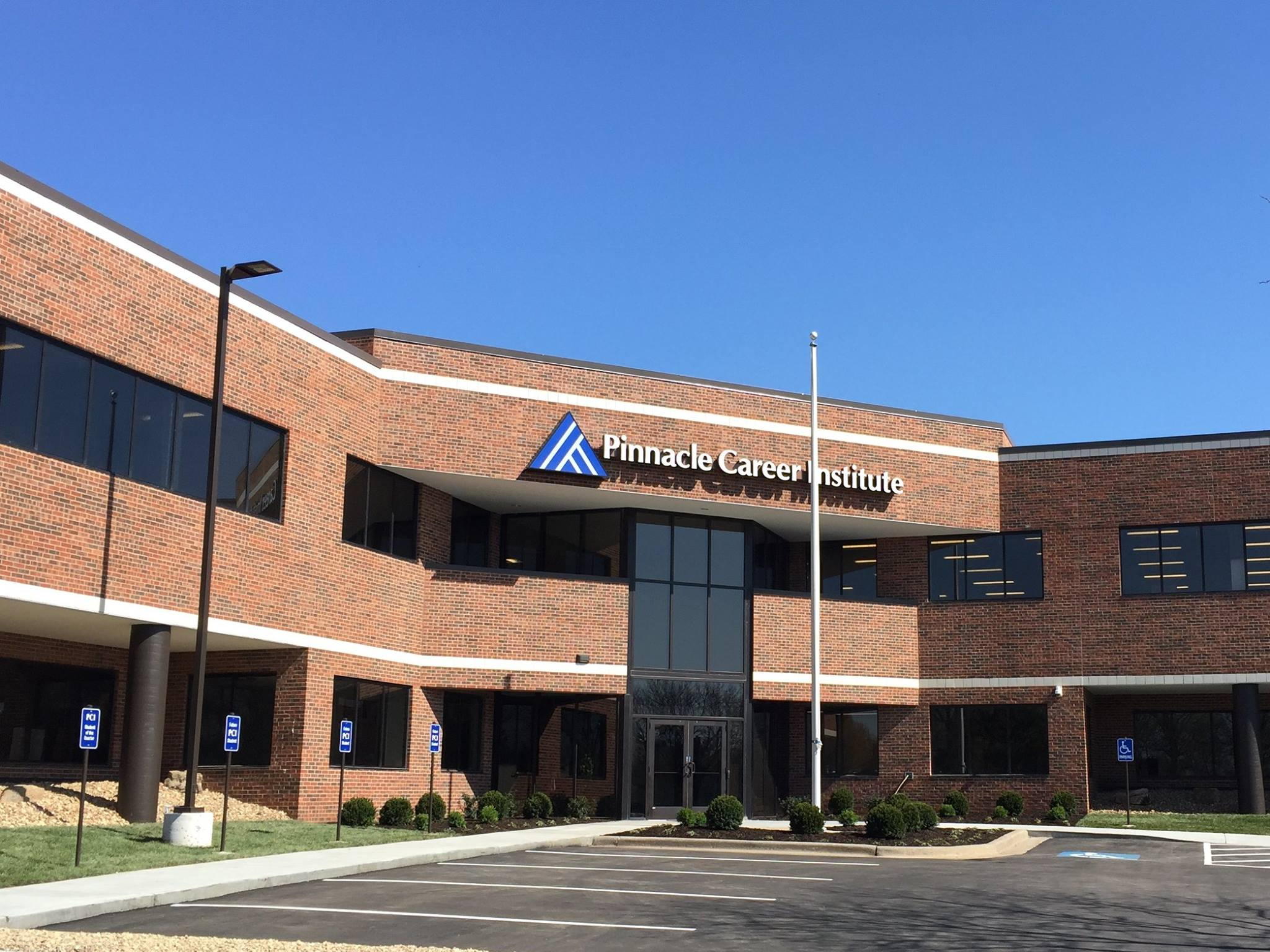 The front view of the South Campus for Pinnacle Career Institute as taken from Hickman Mills